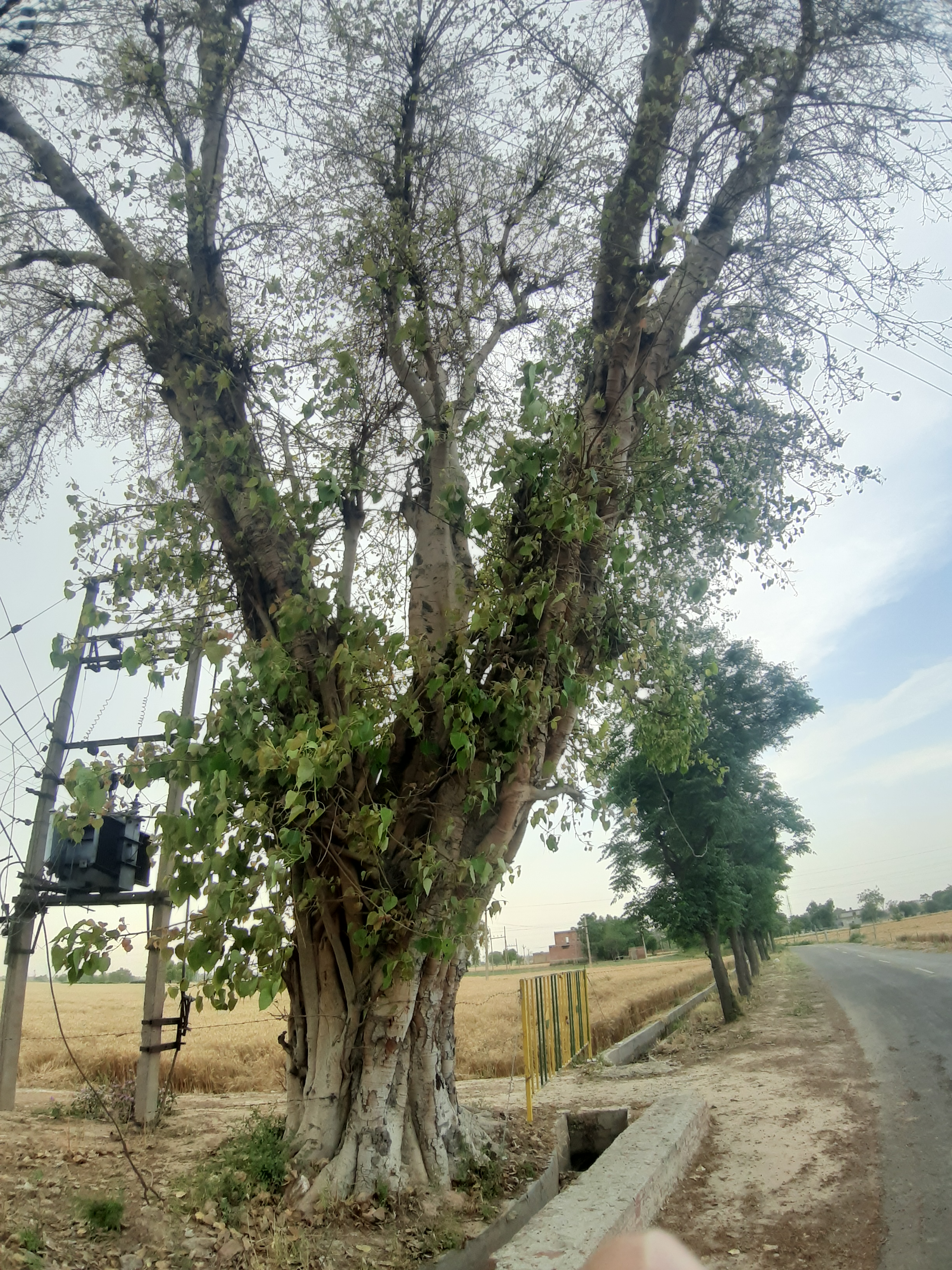 ਪਿੱਪਲ ਦਾ ਰੁੱਖ ਬਹੁਤ ਮਹੱਤਤਾ ਰੱਖਦਾ ਹੈ।